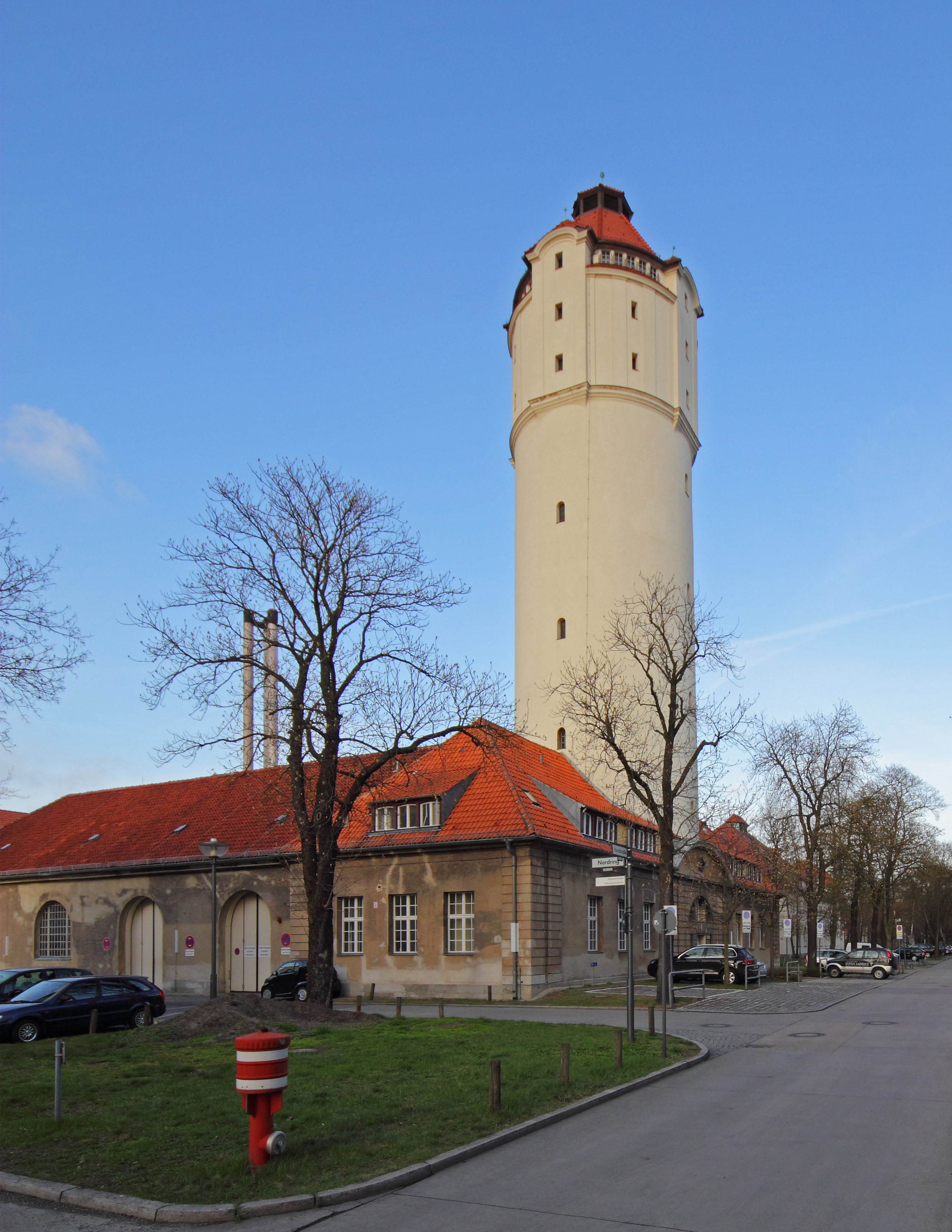 Berlin-Wedding, Virchow Hospital